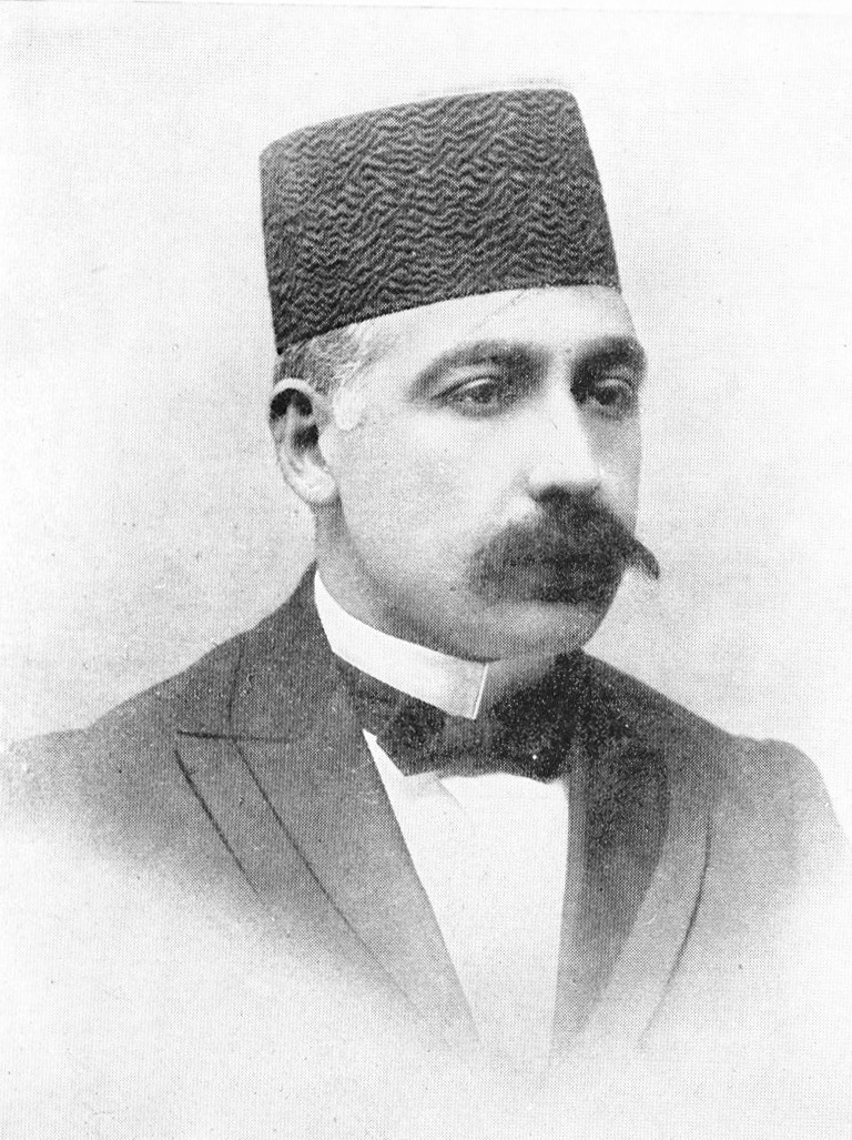 Hassan Vosough, Prime Minister of Persia